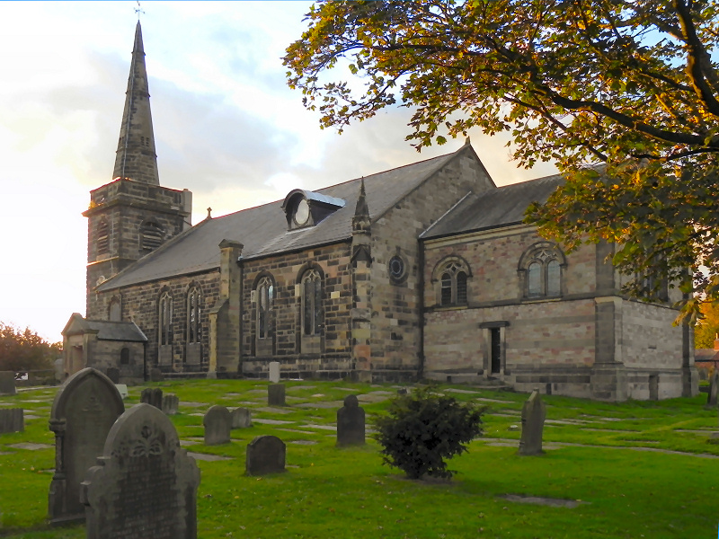 St Cuthbert's Parish Church, Churchtown, Data from Geograph: Description: St Cuthbert's Parish Church Of North Meols. ICBM: 53.6602958095, -2.9620541761 Location: (about 1 km from) near to Churchtown, Sefton, Great Britain.